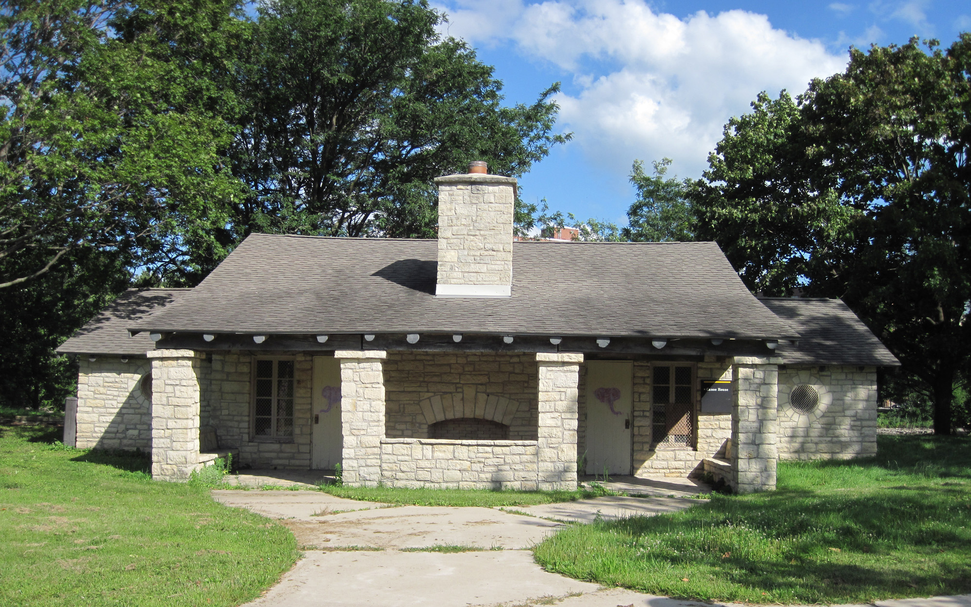 Canoe House, University of Iowa campus, built by Works Progress Administration in 1937.